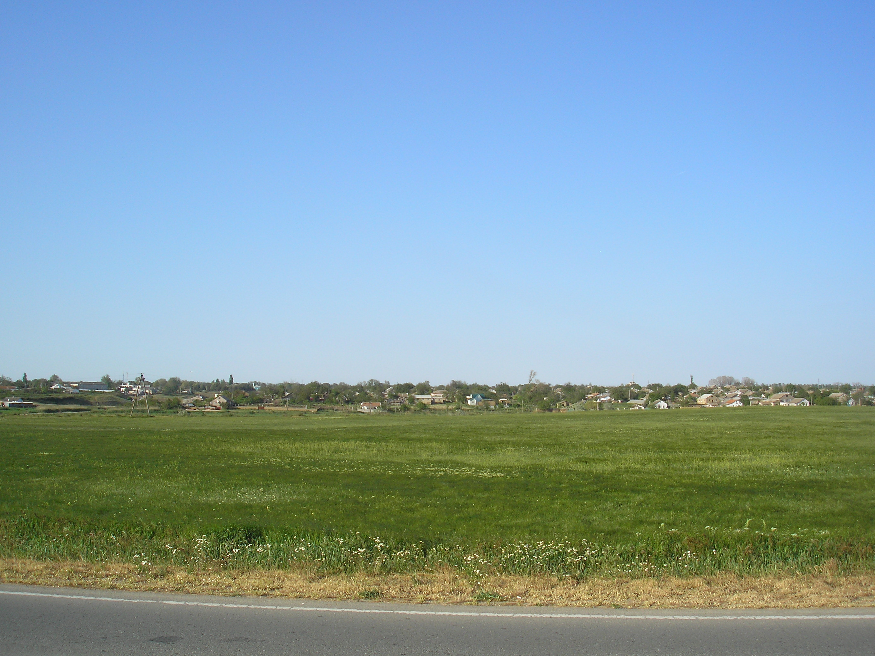 Village Ivanovka, Saki district, Crimea.